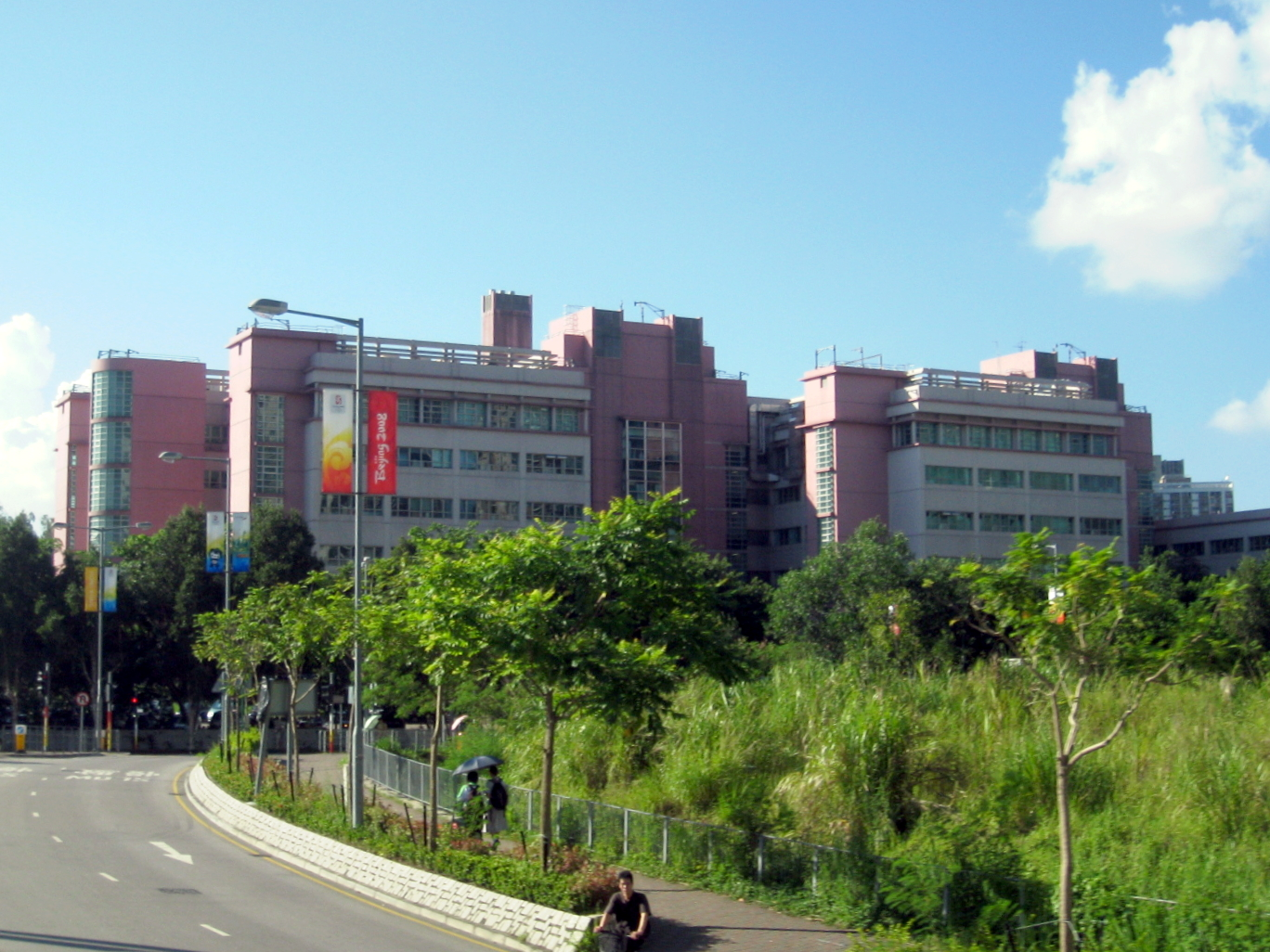 Northern District Hospital 北區醫院